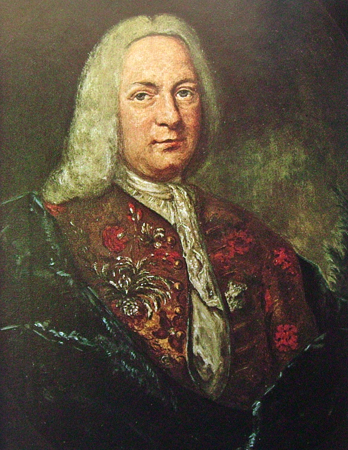 Henrik König (1686-1736) (correct date) of the Swedish East India Company, Swedish merchant